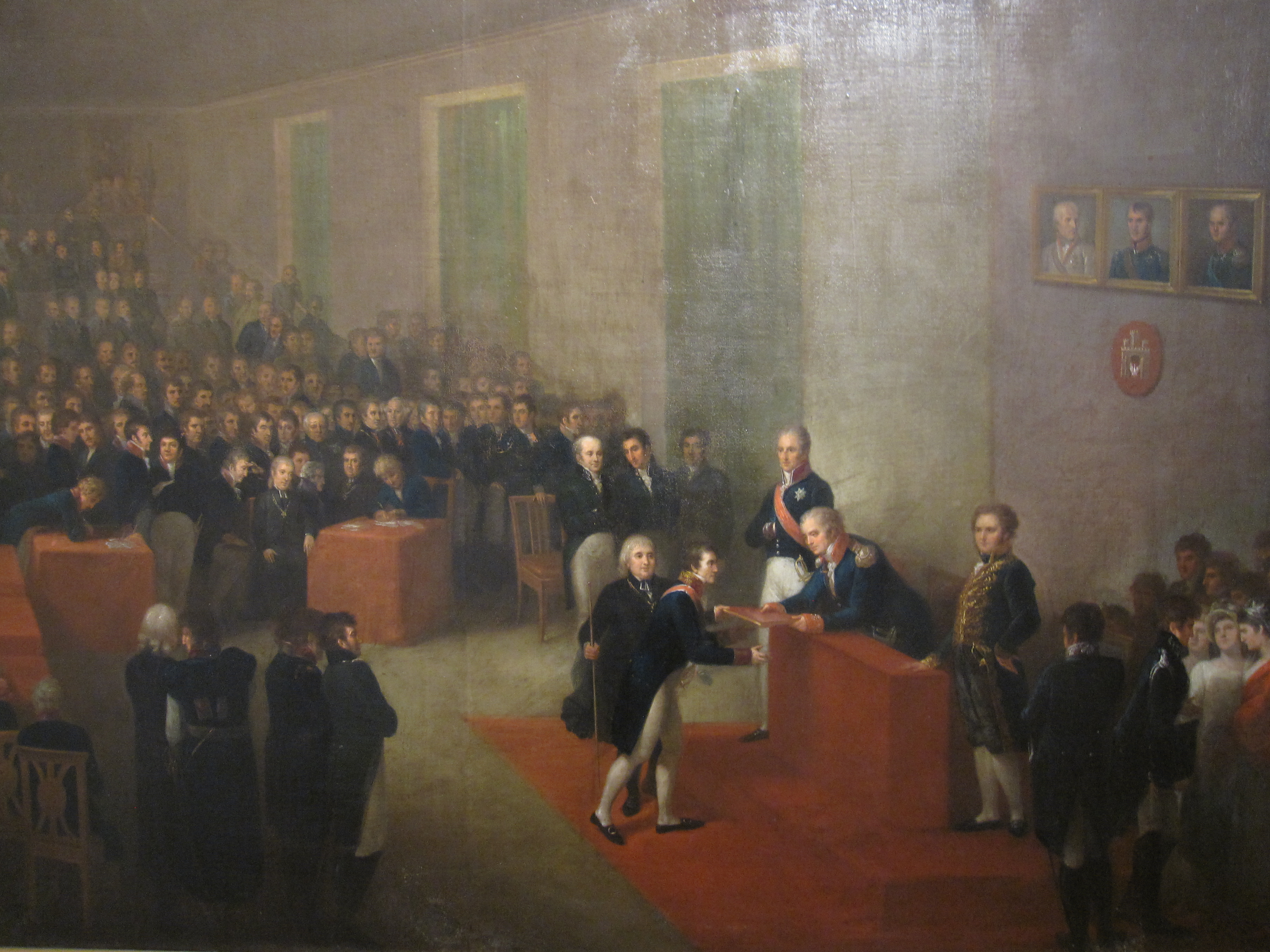 The act of granting the constitution to the Free City of Cracow. Oil on canvas, Jagiellonian University.